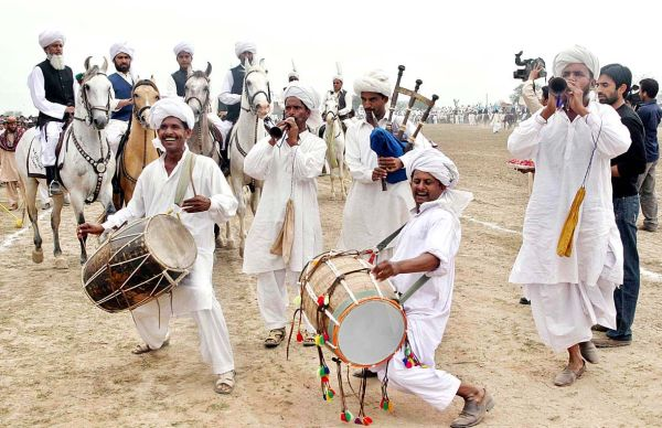 The Punjabi people celebrating Jasn-e-Kharian, during the month of march every year.